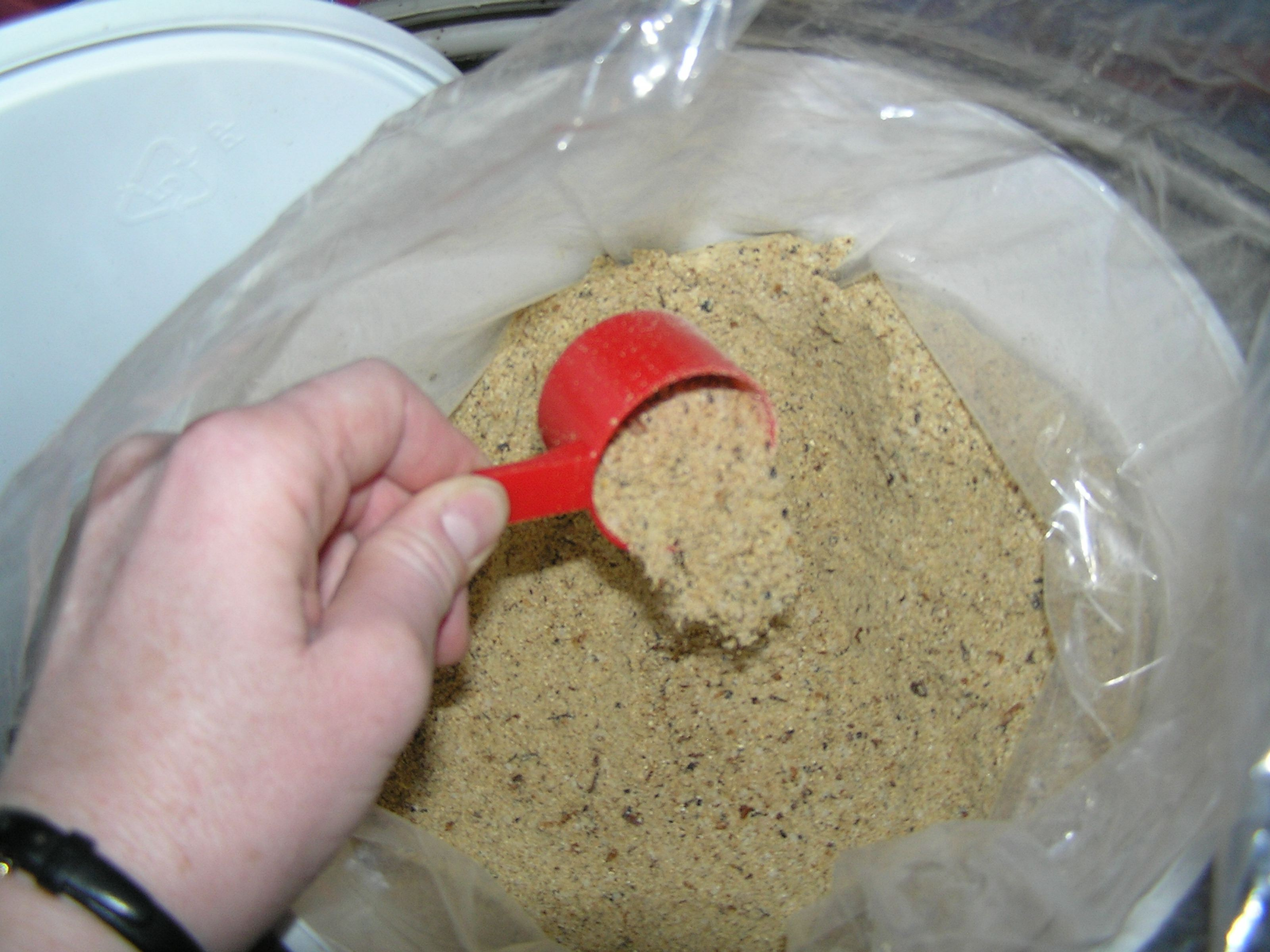 Showing a typical horse vitamin/mineral powdered supplement